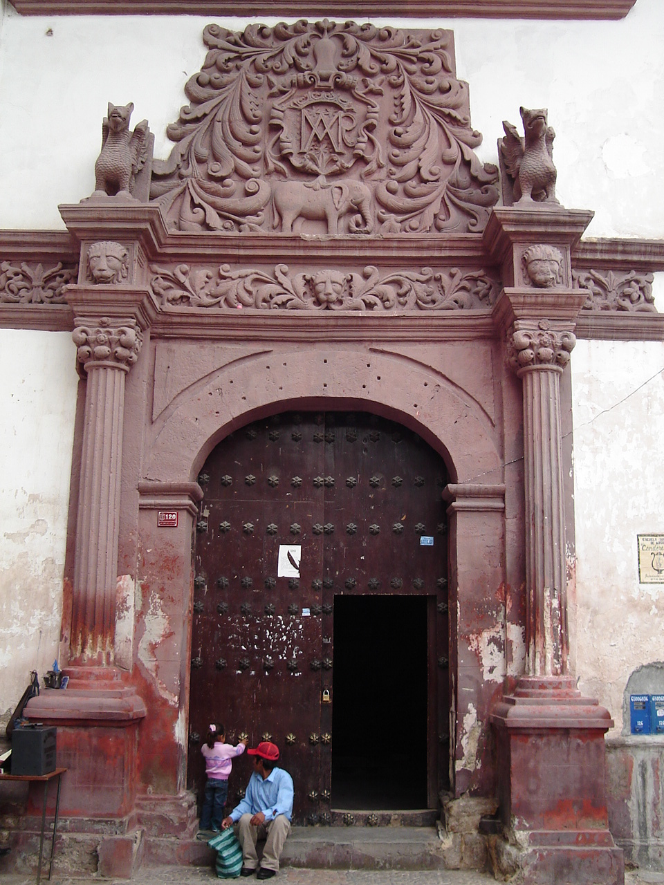 Photos of Ayacucho taken by E. Zambrano